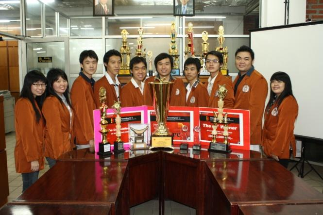 Accolade received by WM students